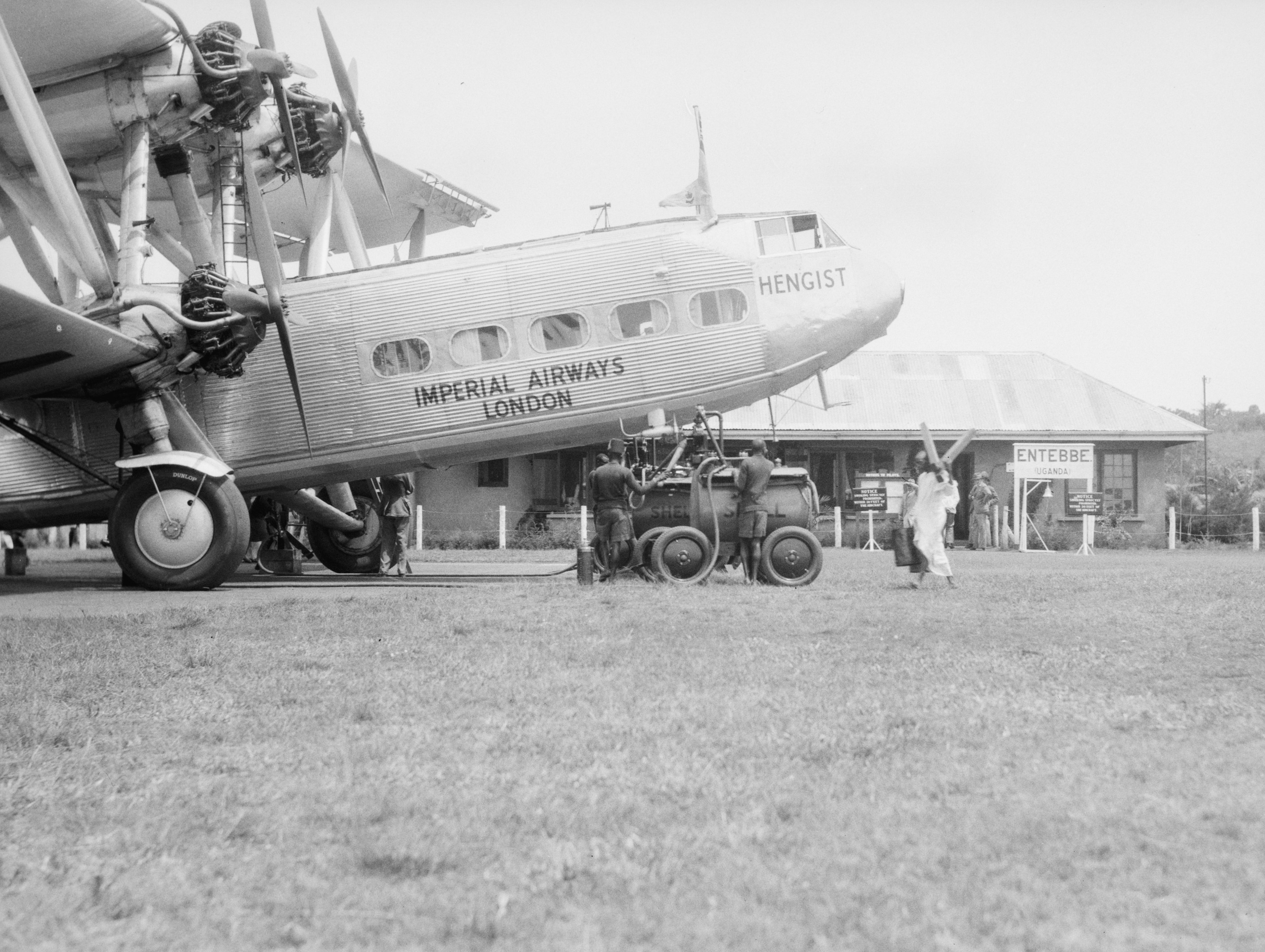 Title: Uganda. Entebbe. Plane landed on aerodrome Abstract/medium: G. Eric and Edith Matson Photograph Collection Physical description: 1 negative